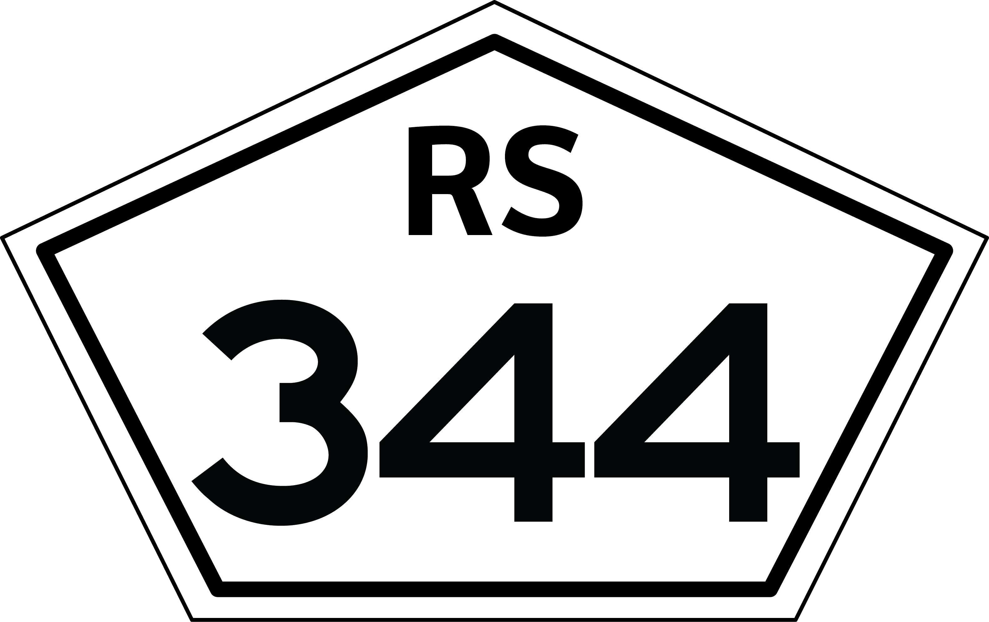 RS-344. State road in Rio Grande do Sul, Brazil. Rodovia estadual no Rio Grande do Sul, Brasil.